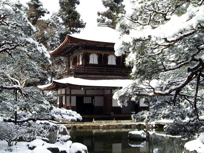 Ginkakuji-temple in a snowy day, Kyoto, Japan.